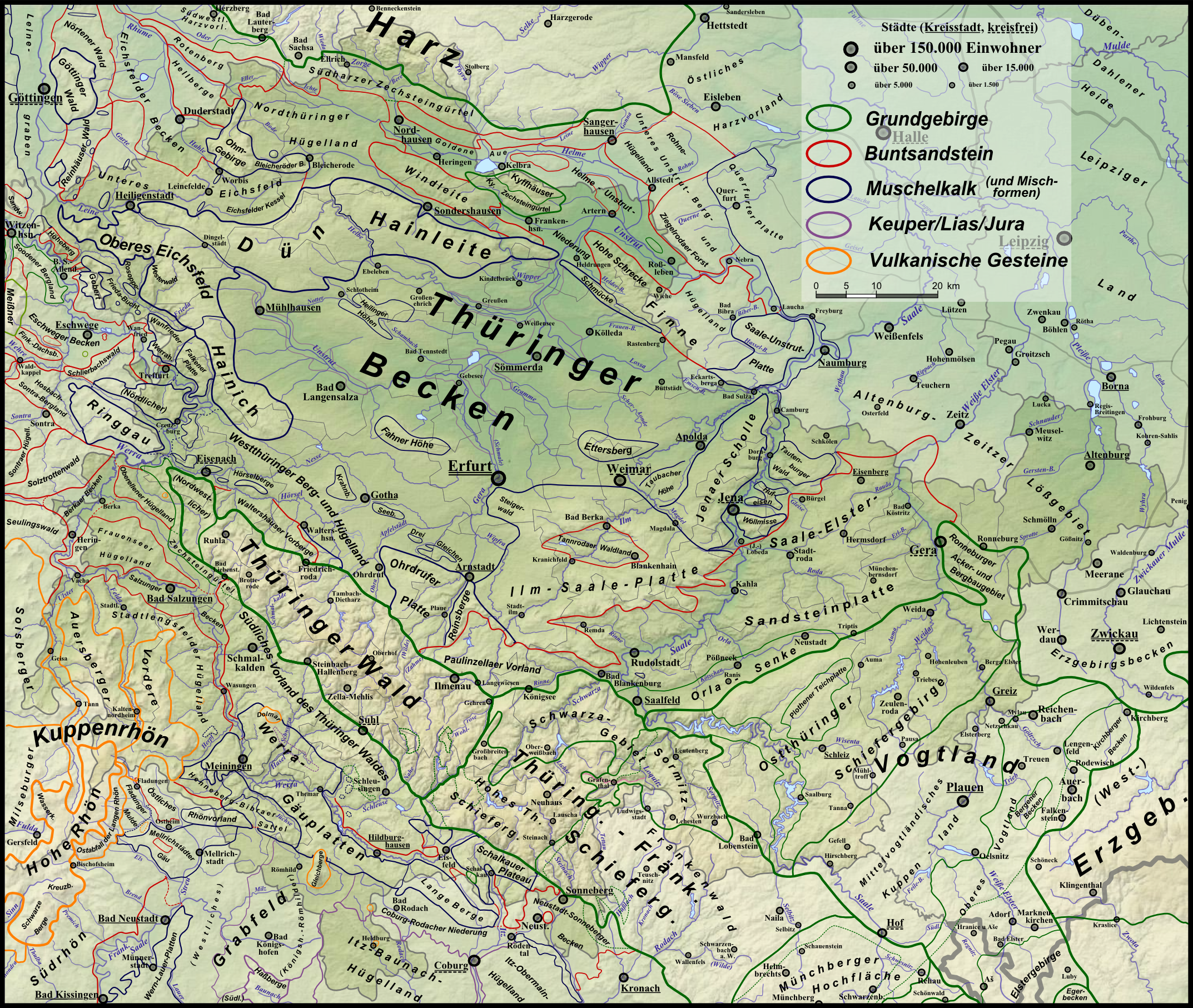 Landscapes of Thuringia